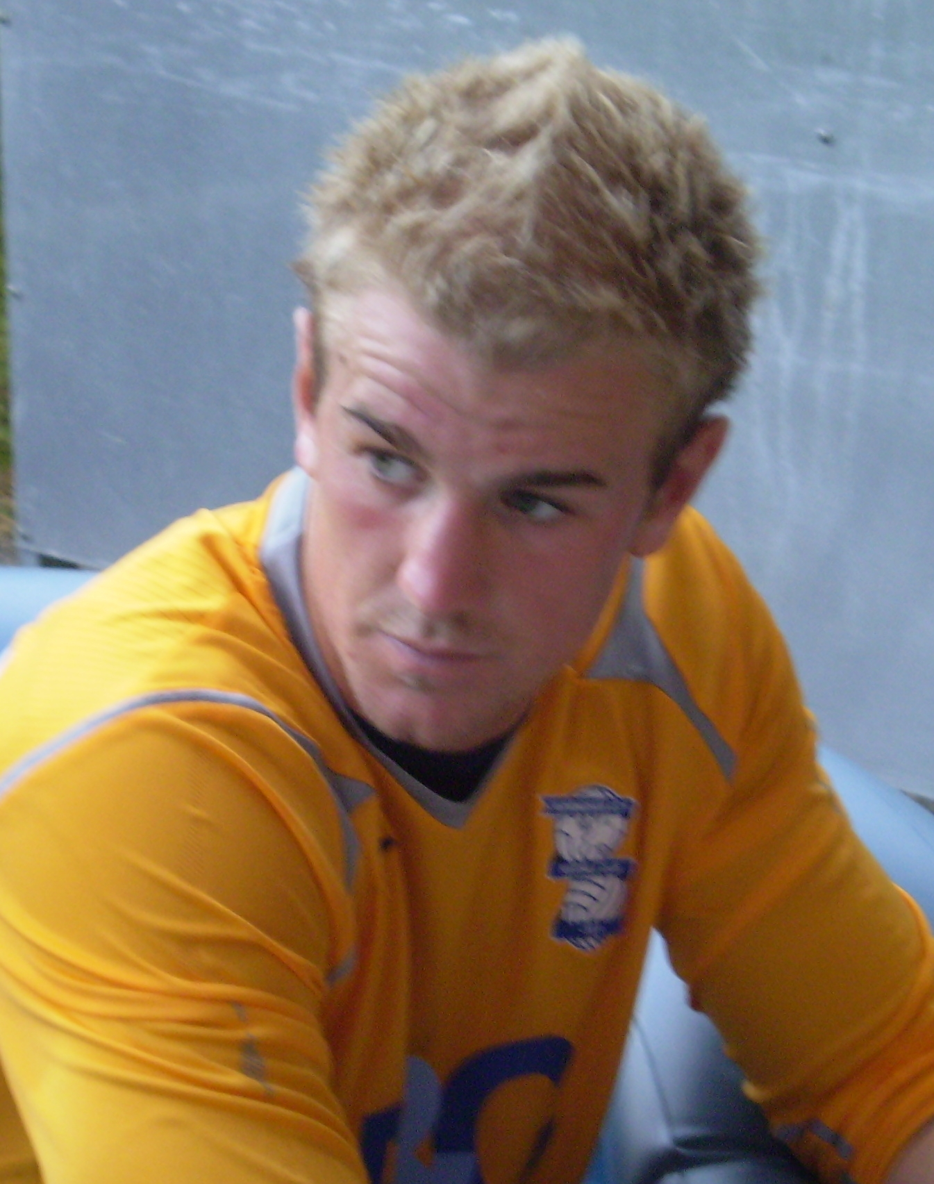 England international footballer Joe Hart, on loan from Manchester City to Birmingham City F.C., enjoys an ice-bath after the pre-season friendly against FC Augsburg in Westendorf, Austria